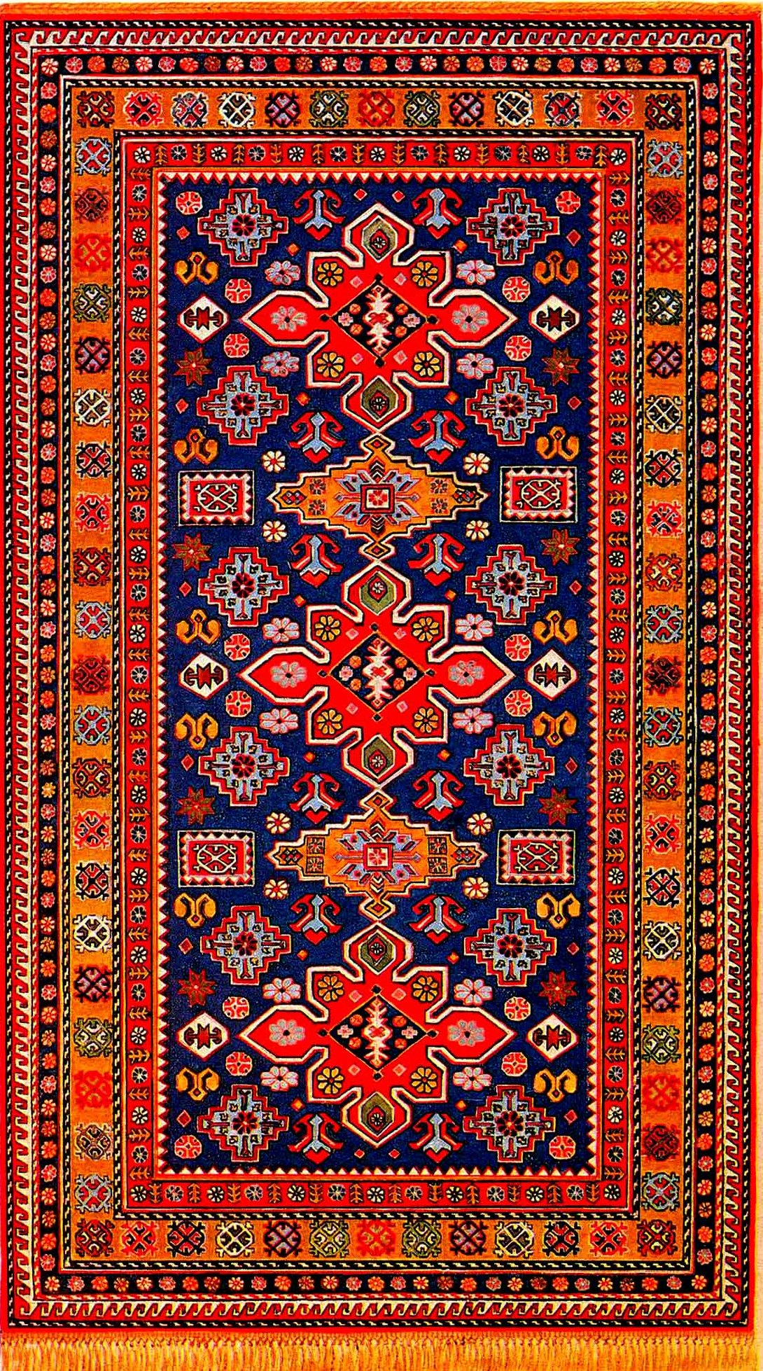 Guba rug, Guba school, XIX c.